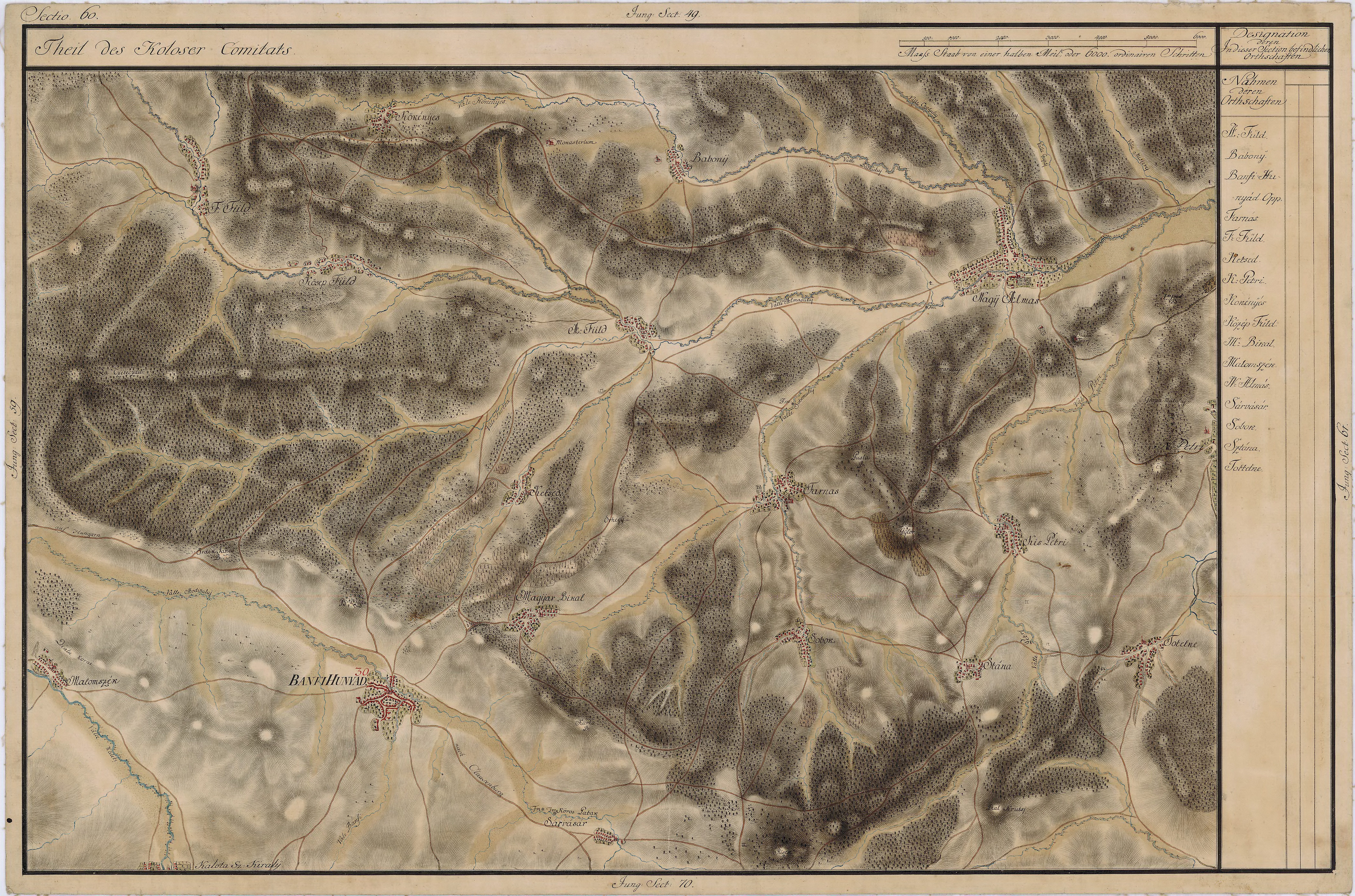 Grand Duchy of Transylvania, 1769-1773. Josephinische Landaufnahme pg.060